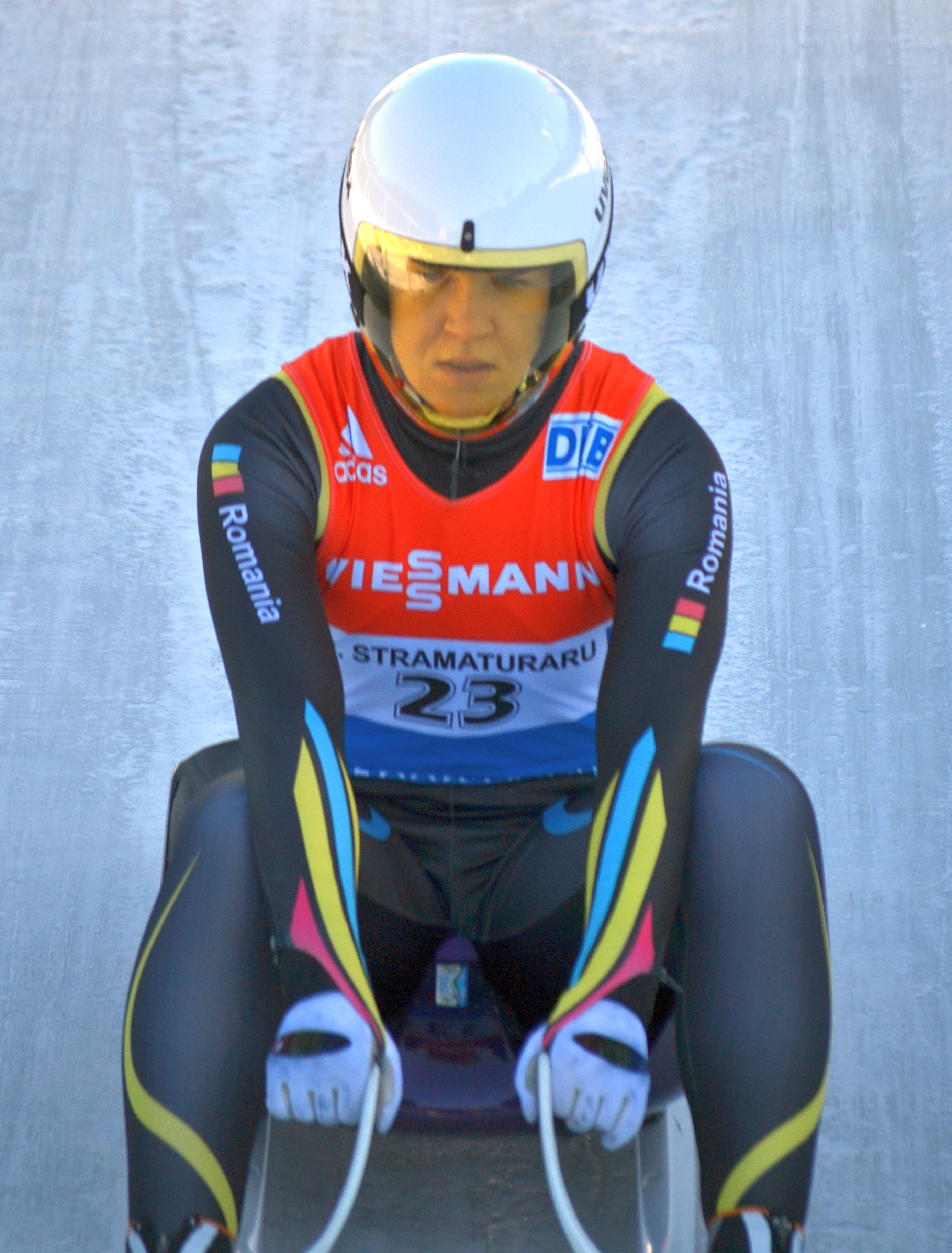 Luge world cup race season 2014/15 in Altenberg/Germany, 19th to 22nd Februar 2015. Day 1: training.